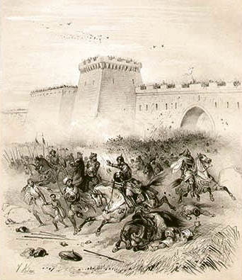 Tinted lithograph of emperor Louis II at the capture of Bari in 871